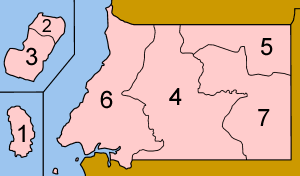 Map of the provinces of Equatorial Guinea, numbered in Spanish (native language) alphabetical order, mostly compatible with English. The islands are farther away from the mainland and each other than represented on this map, hence the lines between them. Annobón Bioko Norte Bioko Sur Centro Sur Kié-Ntem Litoral Wele-Nzas